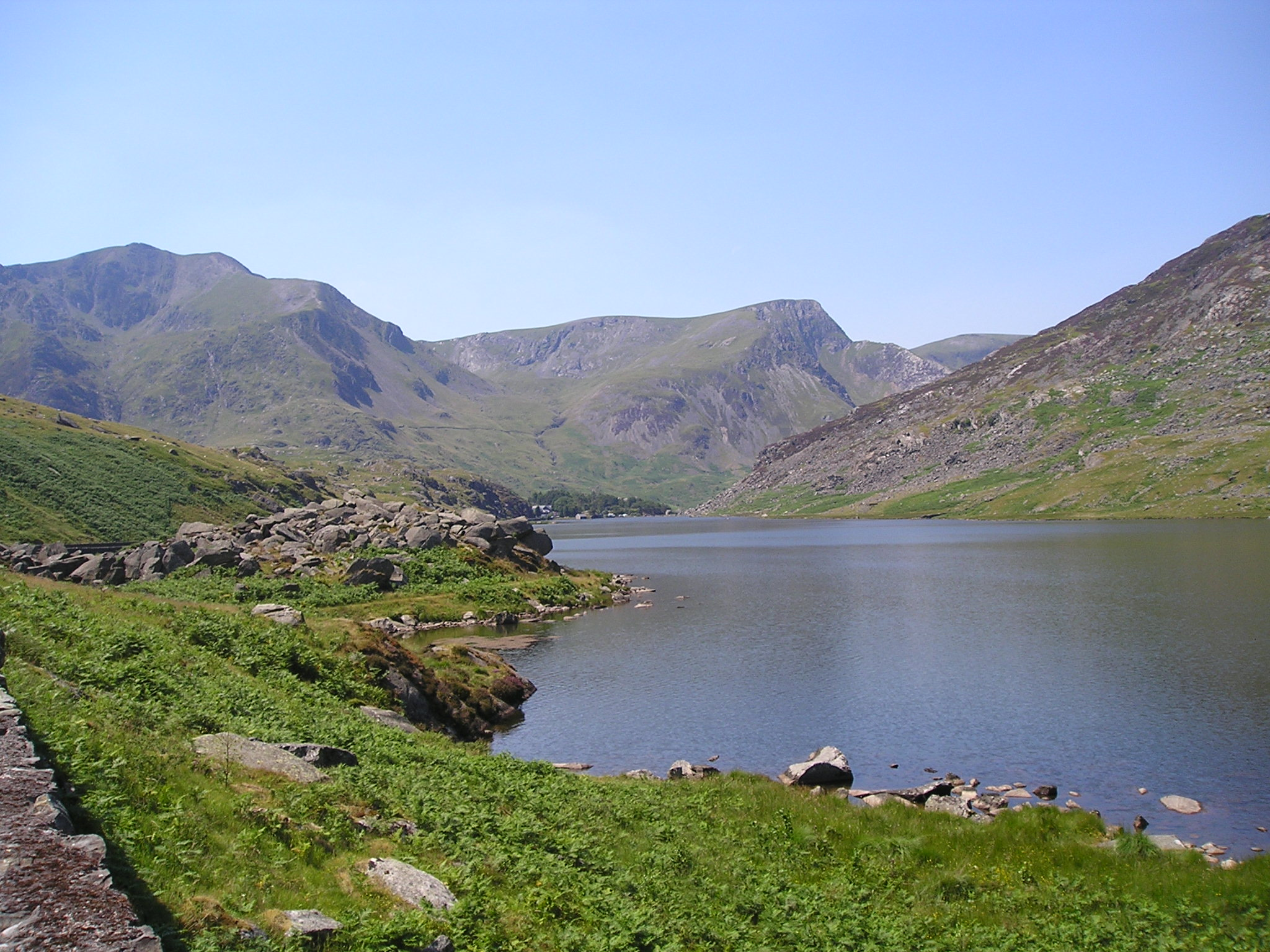 photograph by me , Noel Walley, July 2006